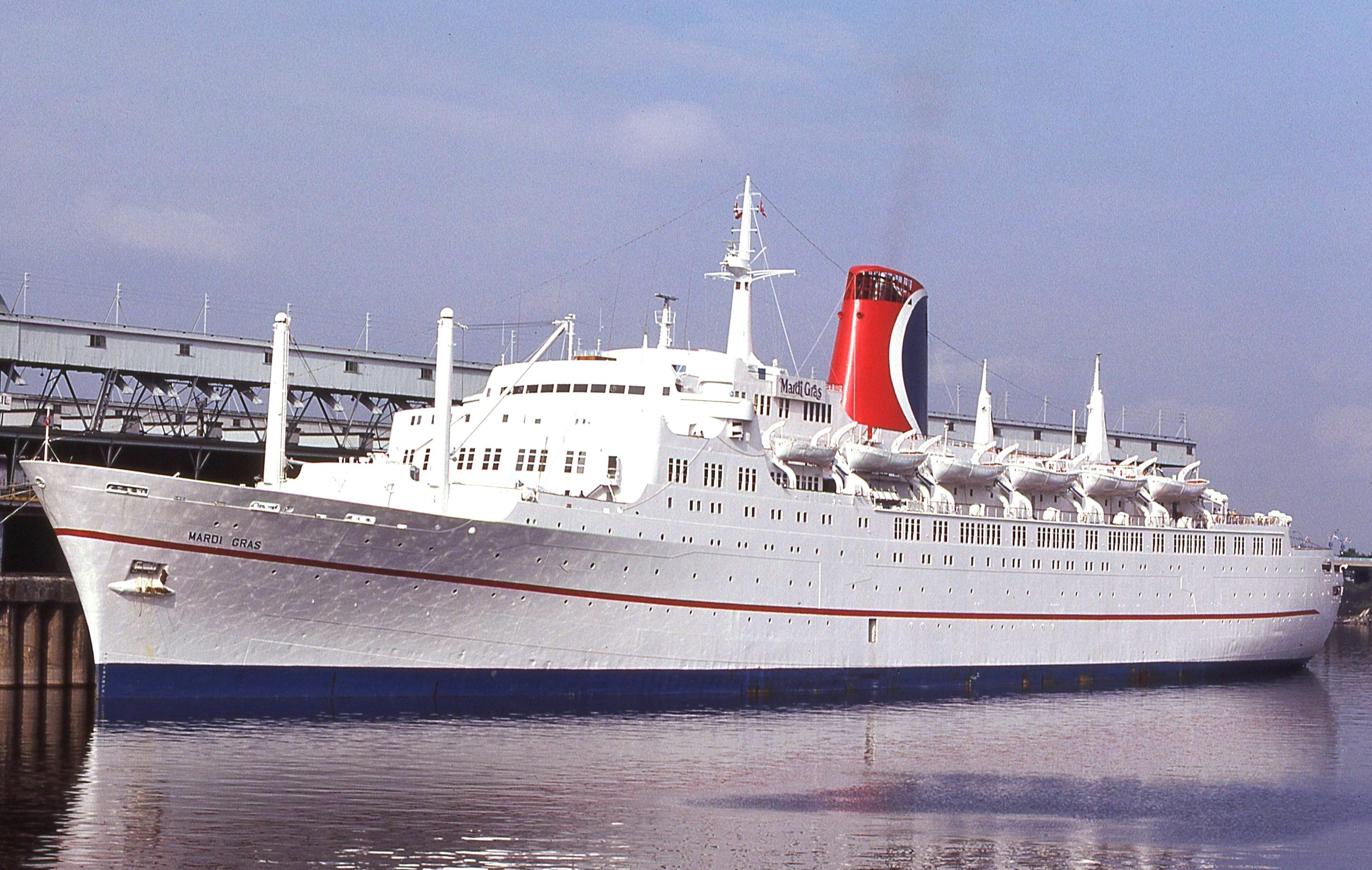 The cruise ship Mardi Gras moored at Montreal on August 28, 1979.